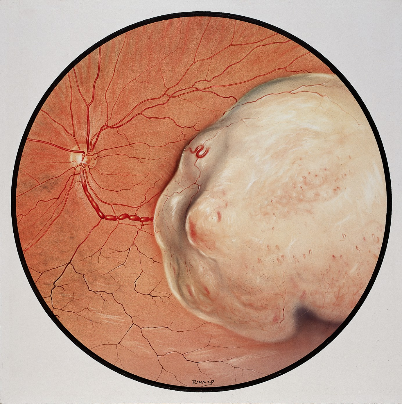 Malignant Melanoma of the Choroid. Iconographic Collections Keywords: Gabriel Donald